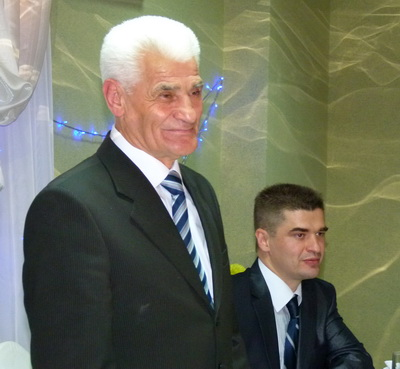 Pchelkin_Vyacheslav